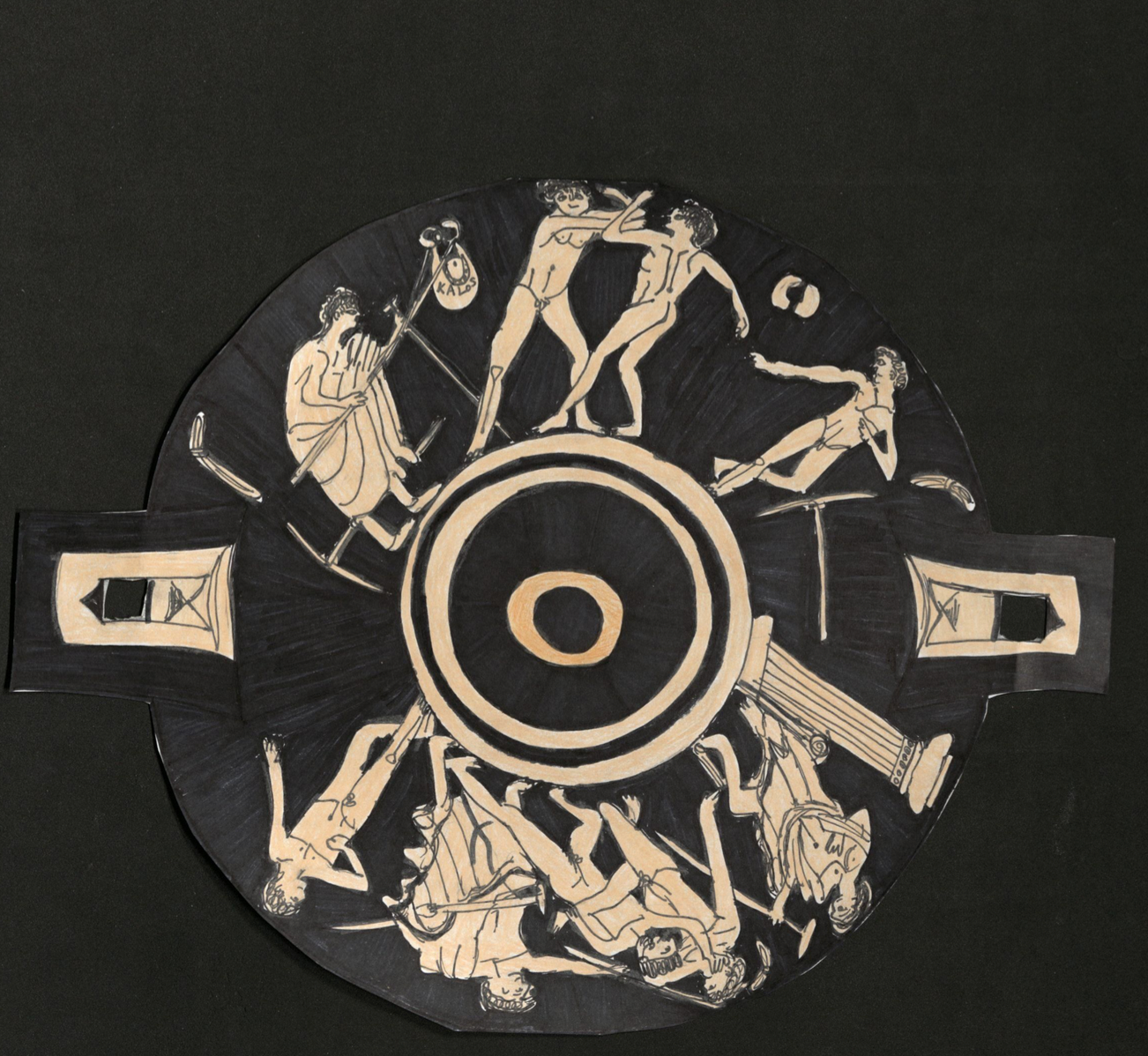 Bottom of Drinking Cup (kylix) Depicting Athletic Combats (drawing)